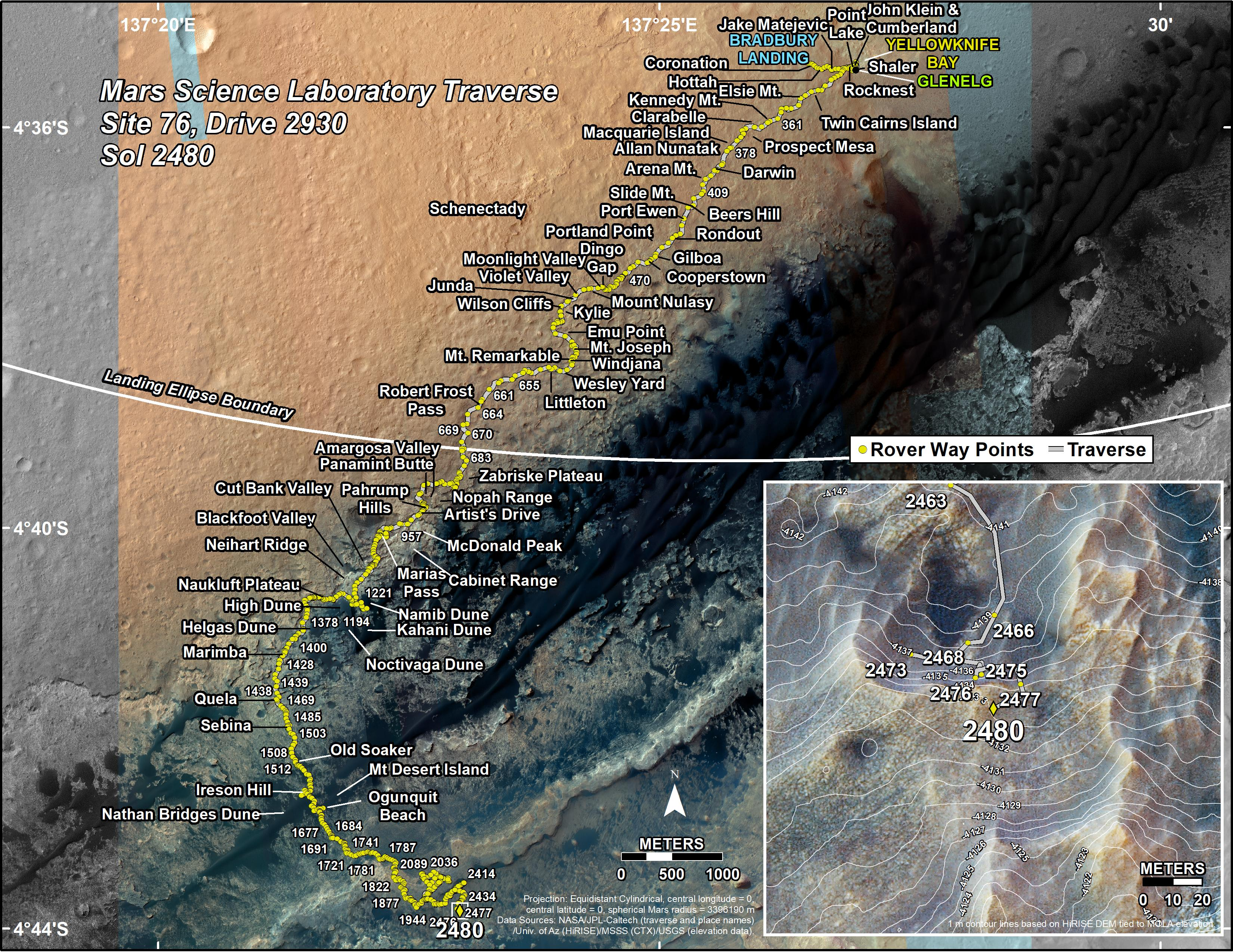 07.29.2019 - Curiosity's Traverse Map Through Sol 2480 This map shows the route driven by NASA's Mars rover Curiosity through the 2480 Martian day, or sol, of the rover's mission on Mars (July 29, 2019). Numbering of the dots along the line indicate the sol number of each drive. North is up. The scale bar is 1 kilometer (~0.62 mile). From Sol 2477 to Sol 2480, Curiosity had driven a straight line distance of about 40.36 feet (12.30 meters), bringing the rover's total odometry for the mission to 13.10 miles (21.08 kilometers). The base image from the map is from the High Resolution Imaging Science Experiment Camera (HiRISE) in NASA's Mars Reconnaissance Orbiter.